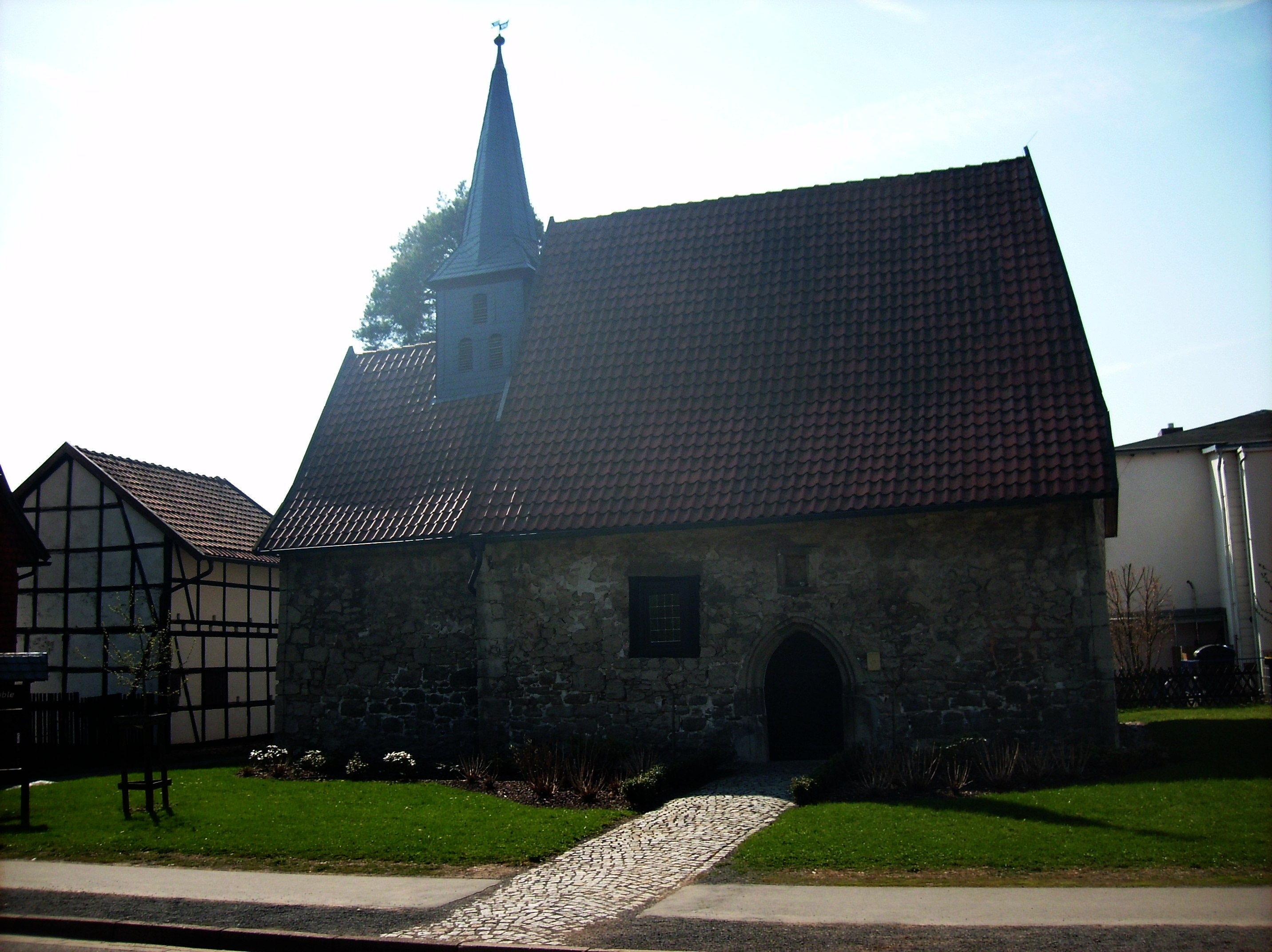 Holy Spirit Hospital Church in Ellrich (Nordhausen district, Thuringia)